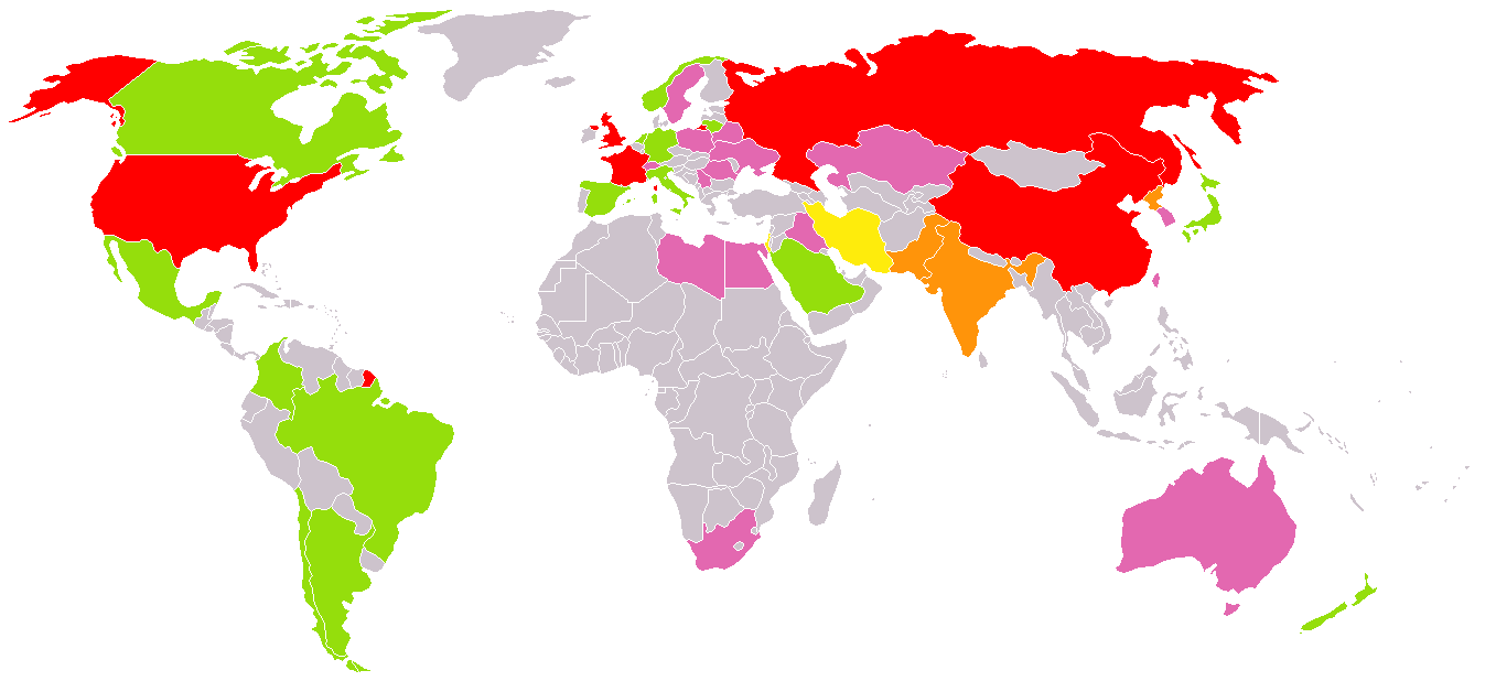 Image of worldwide nuclear weapons programs, as of September 2005. Based on info at List of countries with nuclear weapons, filled into Image:BlankMap-World.png originally by User:Fastfission (but now by others as well, see below). Rendered without labels for multi-lingual support. Feel free to update this (very easy using Photoshop or GIMP) as reliable information changes. Rojo: Five "nuclear weapons states" from the NPT. Anaranjado: Other known nuclear powers. Amarillo: States suspected of having possession of, or suspected of being in the process of developing, nuclear weapons and/or nuclear programs. Morado: States which at one point had nuclear weapons and/or nuclear weapons research programs. Verde: Other states capable of developing nuclear weapons. Historical states have been represented by their successor states (i.e. Yugoslavia by Serbia, as it apparently inherited the nuclear materials of the socialist state after it fragmented).